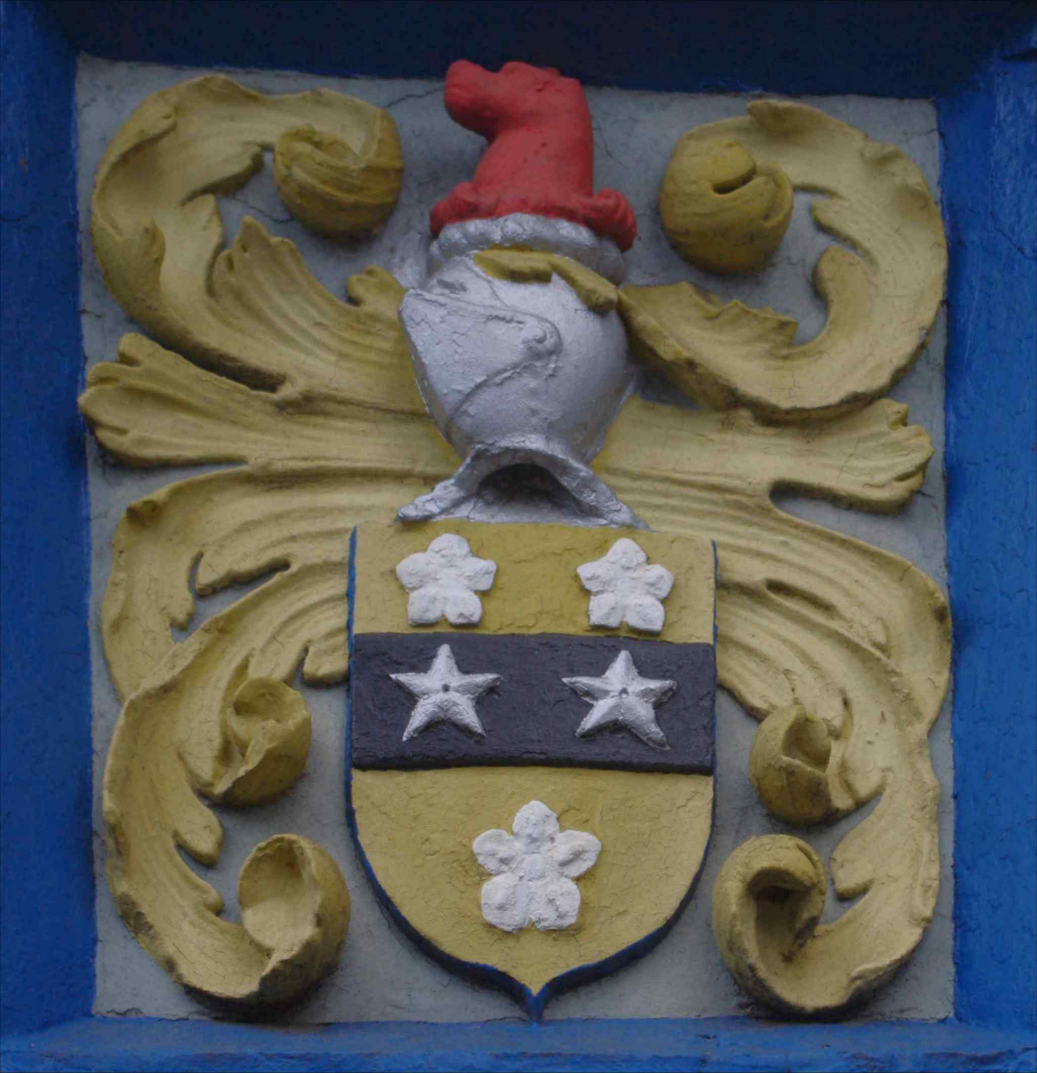 Crest on the Alms Houses in Sutton Valence village, Kent, UK